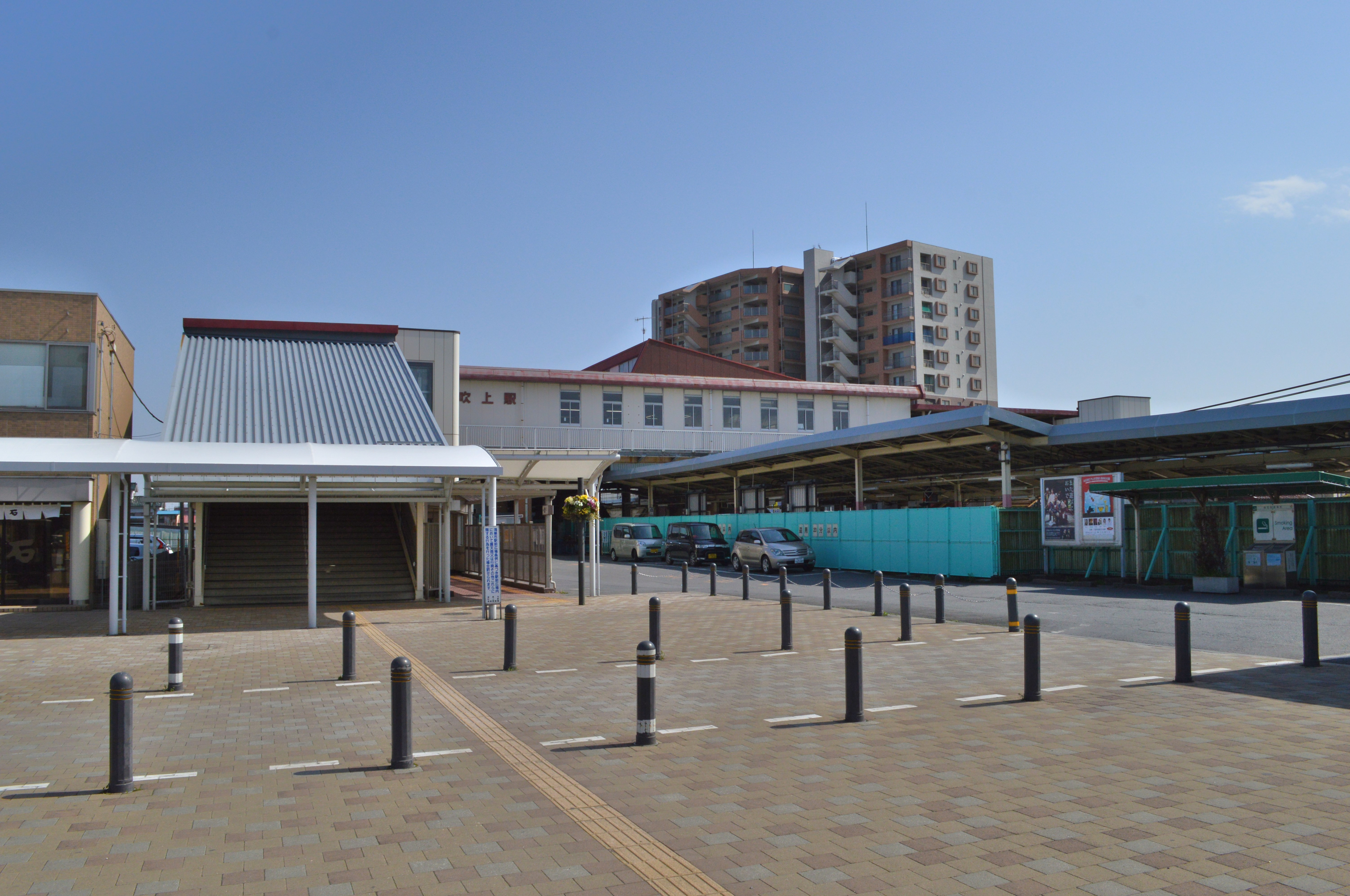 The north entrance to Fukiage Station in Saitama Prefecture, Japan